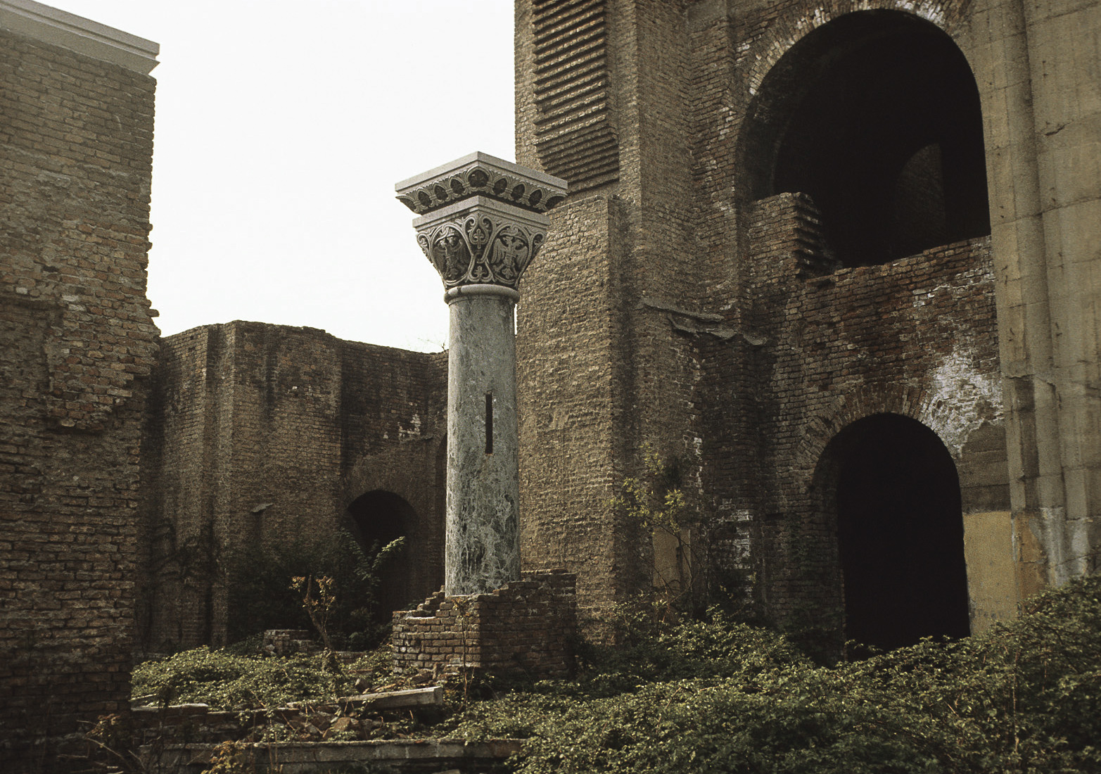 Baveno Säule Hram Svetog Save